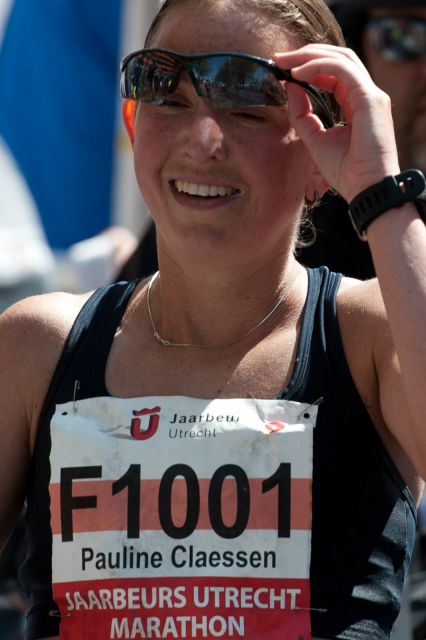 Pauline Claessen after winning the 2011 Utrecht Marathon, the Netherlands